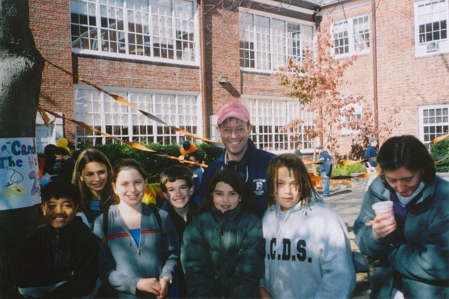 Taken by me, circa October 2001.